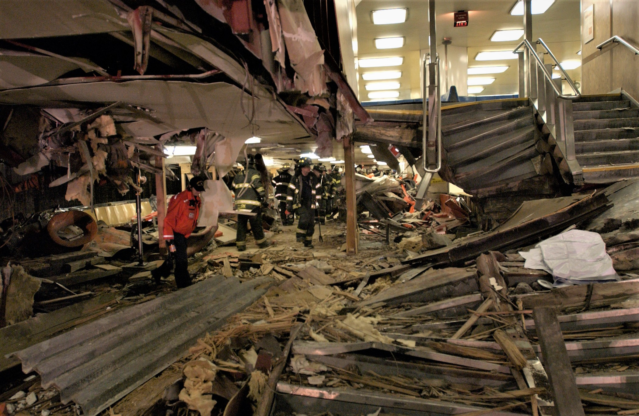 The damage to the the Staten Island Ferry Andrew J. Barberi after crashing into a pier in New York City October 15, 2003.